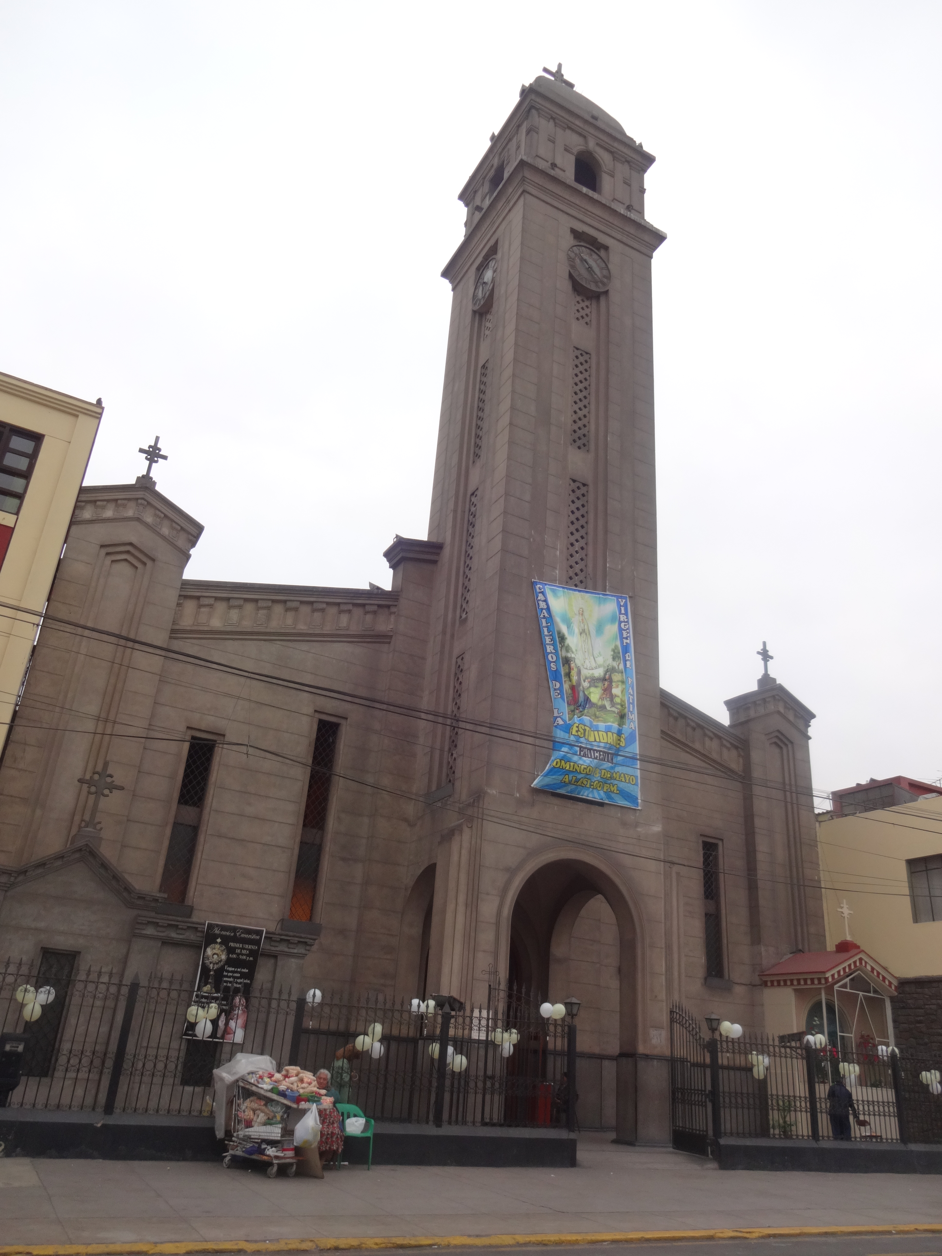 Santa Beatriz Church in Lince District, Lima-Peru.